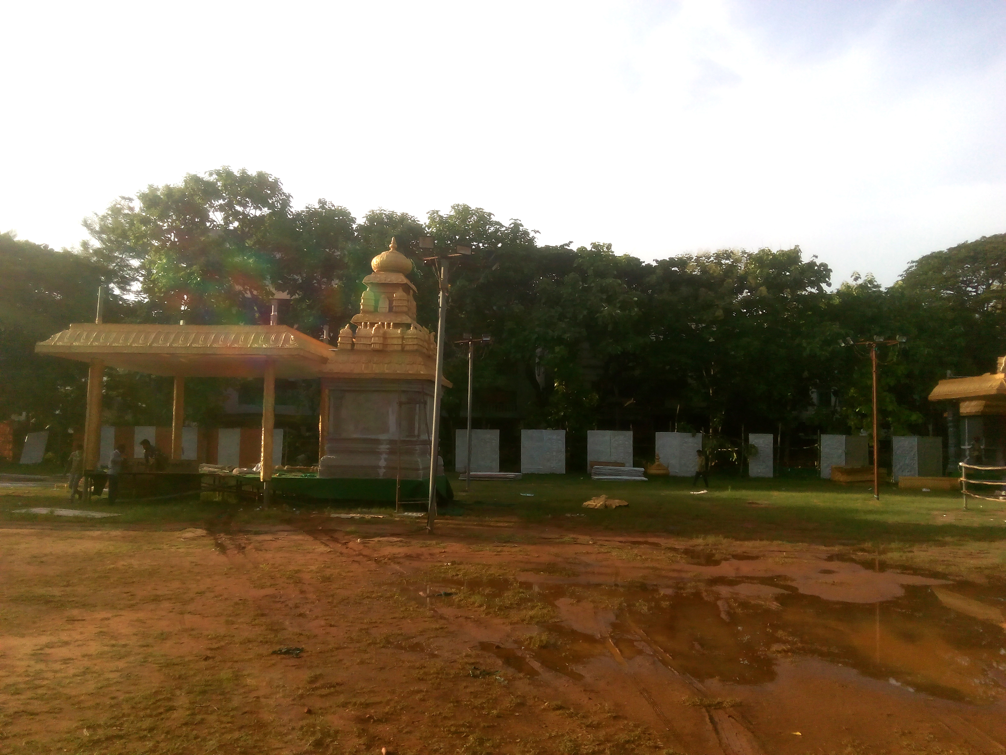 Rajamandry Godavari Pushkaralu 2015 (Godavari Kumbhamela)